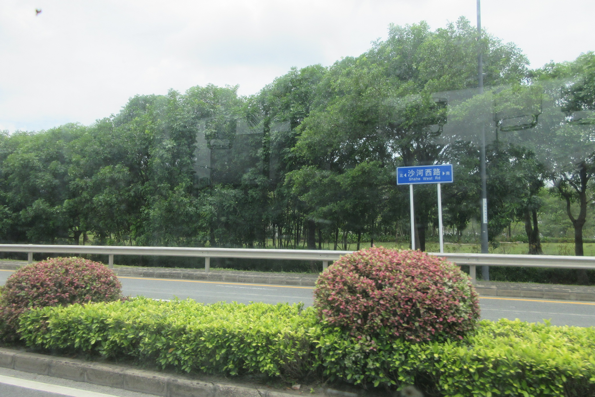 沙河西路, Shahe West Road, Nanshan District, Shenzhen in June 2017